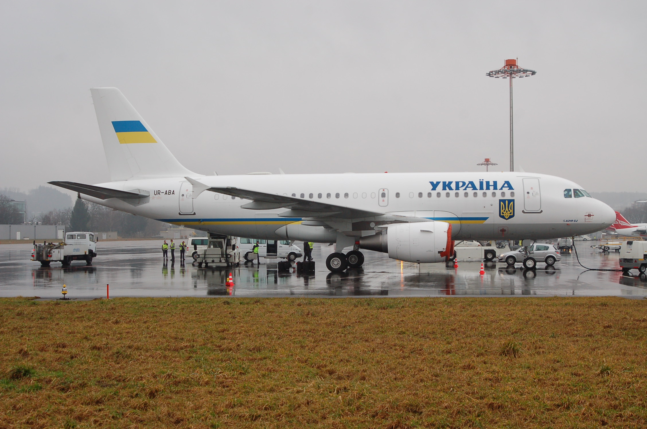 Airbus 319 of the Ukraine Government @ Zurich 28/01/12.